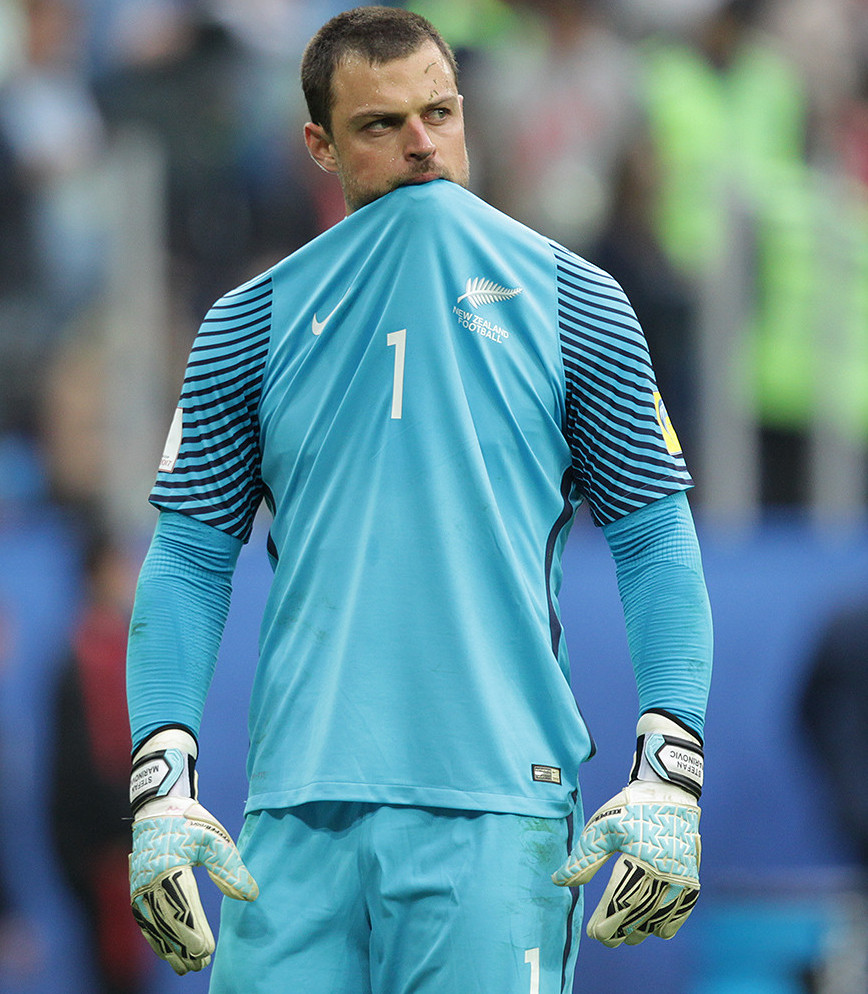 New Zealand VS. Portugal 0 - 4, 24 June 2017